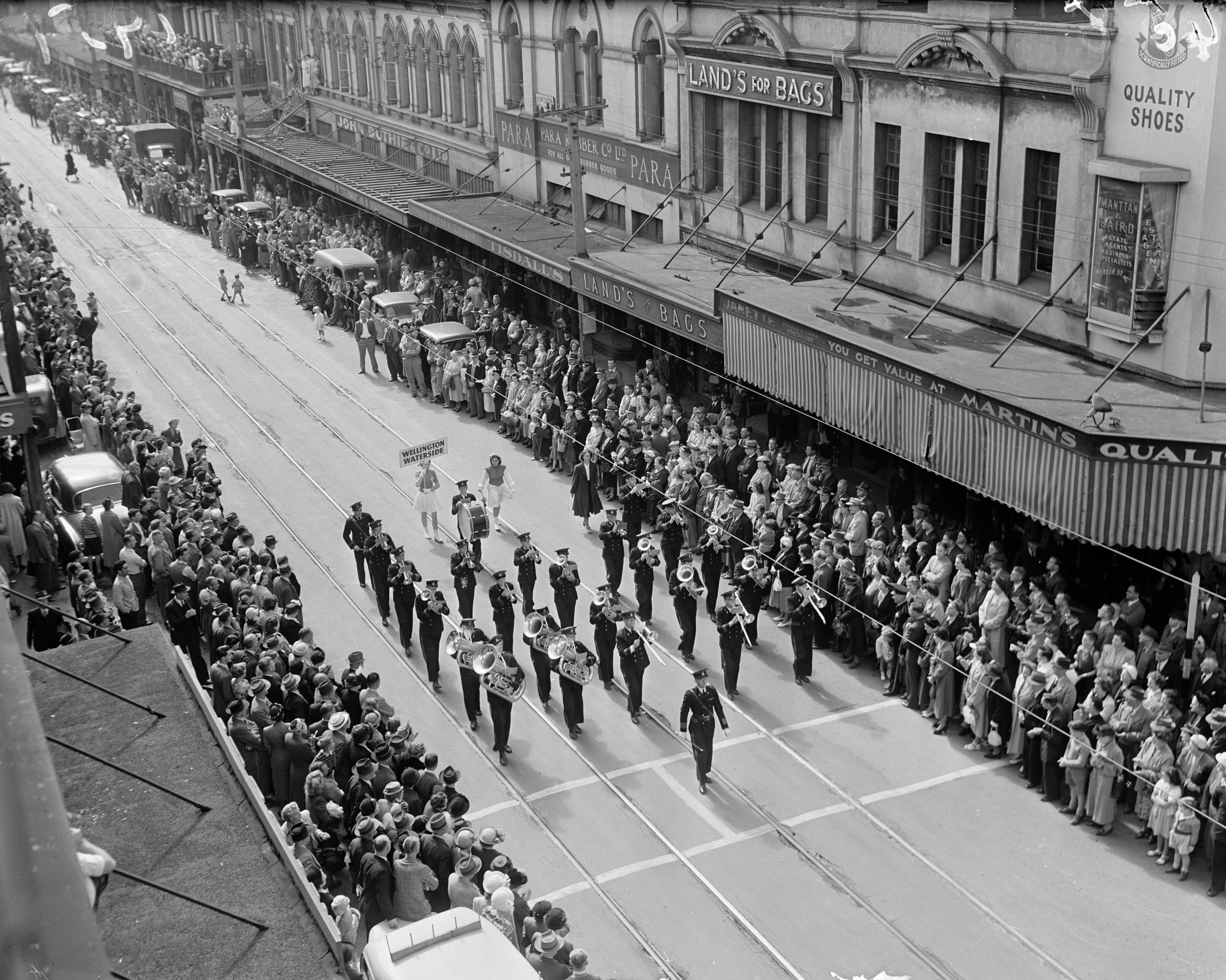 Brass band marching and playing in Willis Street, Wellington during national band championships. A sign held by a band member identifies it as 'Wellington Waterside'. Willis Street is lined with onlookers. Visible shops include Para, John Duthie (3rd building from right), Tisdall's and Land's for Bags.